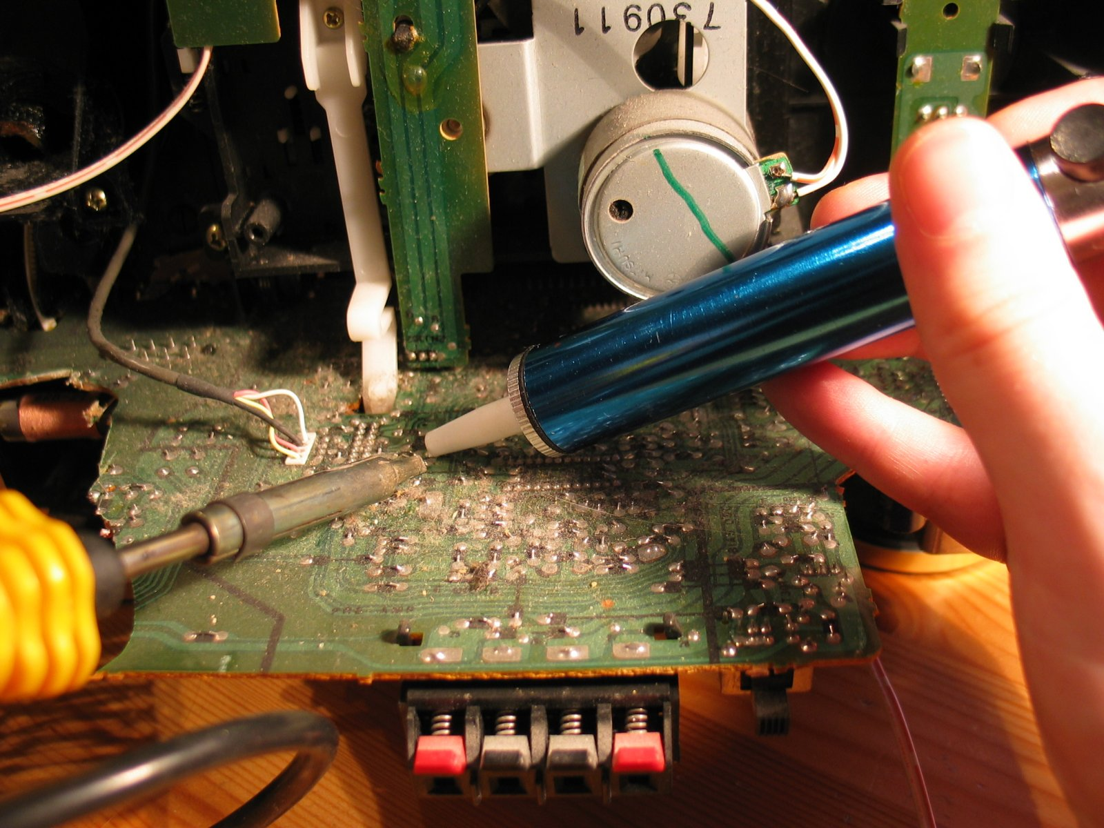 Desoldering using a vacuum plunger (blue, right) and a soldering iron (yellow, left).